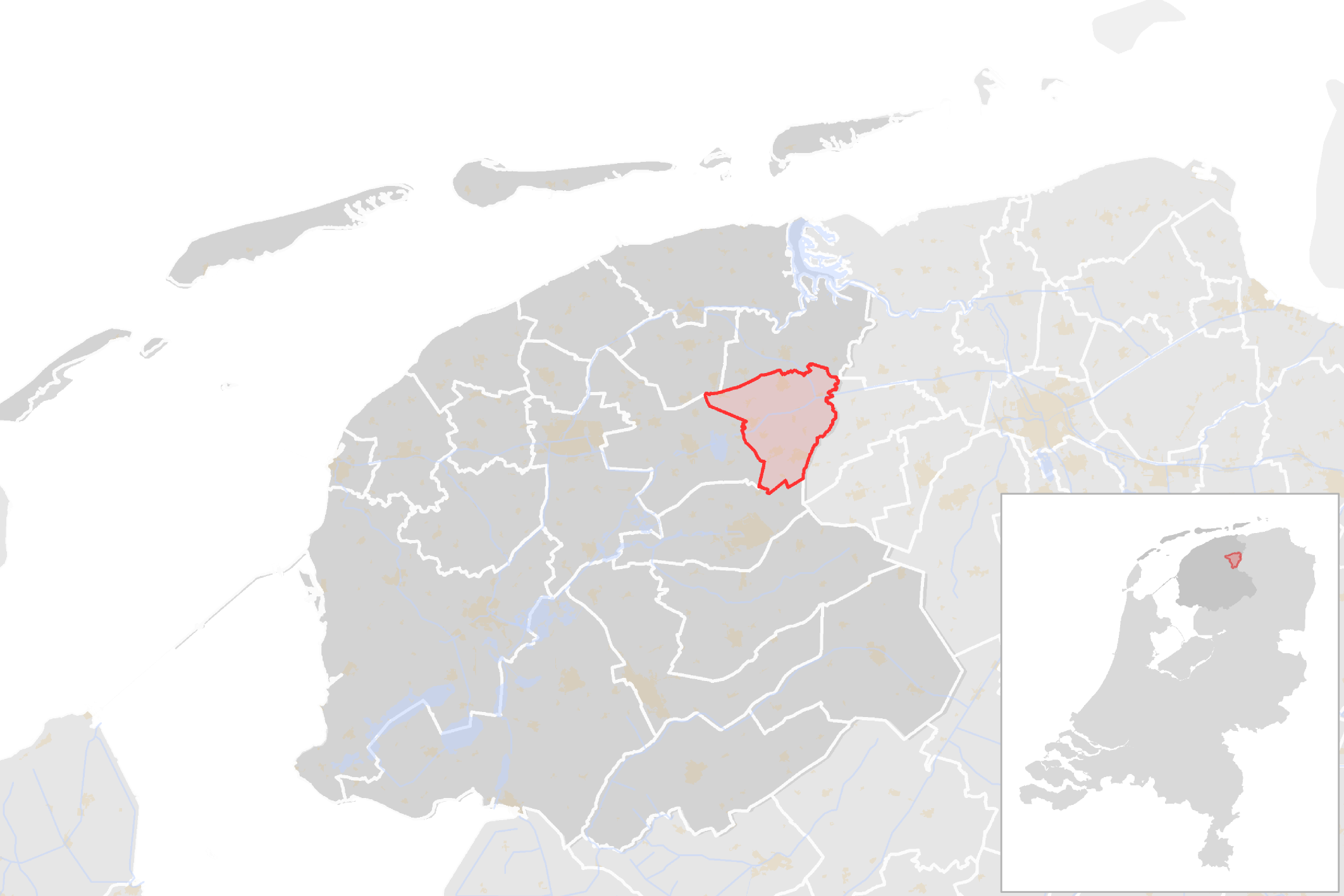 Locator map showing municipality boundary of one of the 390 Dutch municipalities (as of 2016)